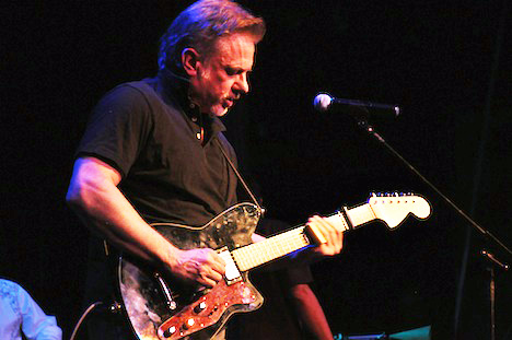 Dwight Yoakam - Live in Concert (photo by Scott Dudelson)